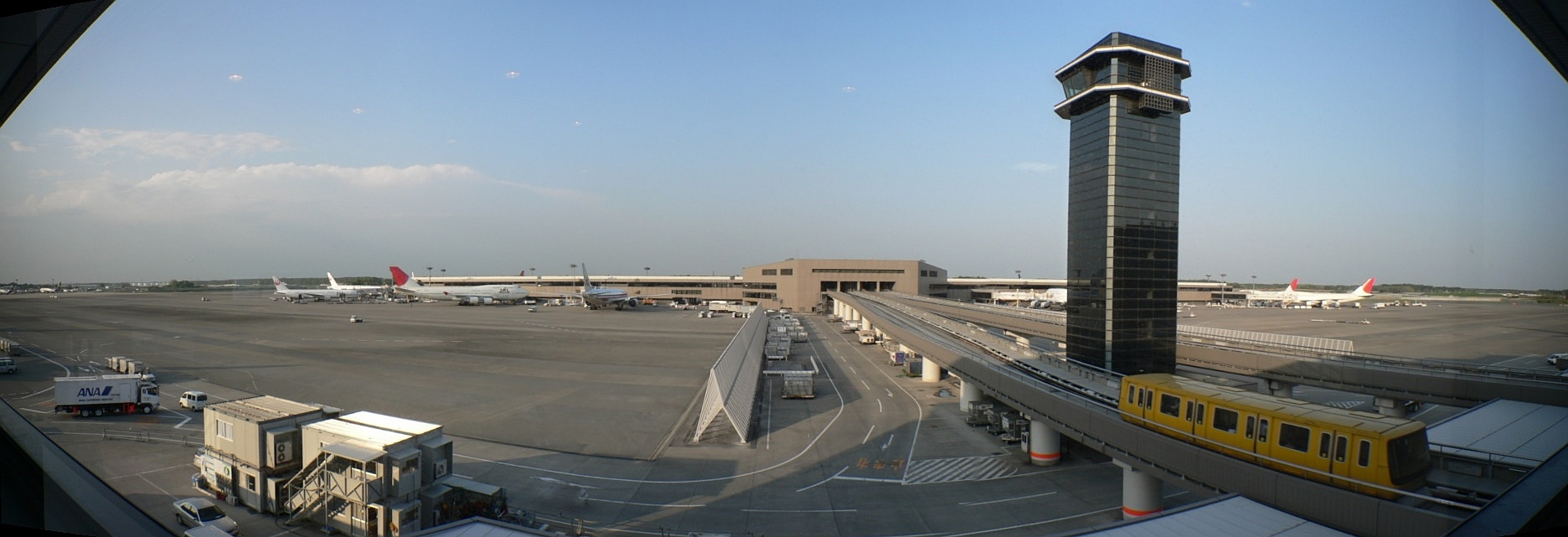 Narita International Airport - panorama from inside Yahoo! Internet Cafe